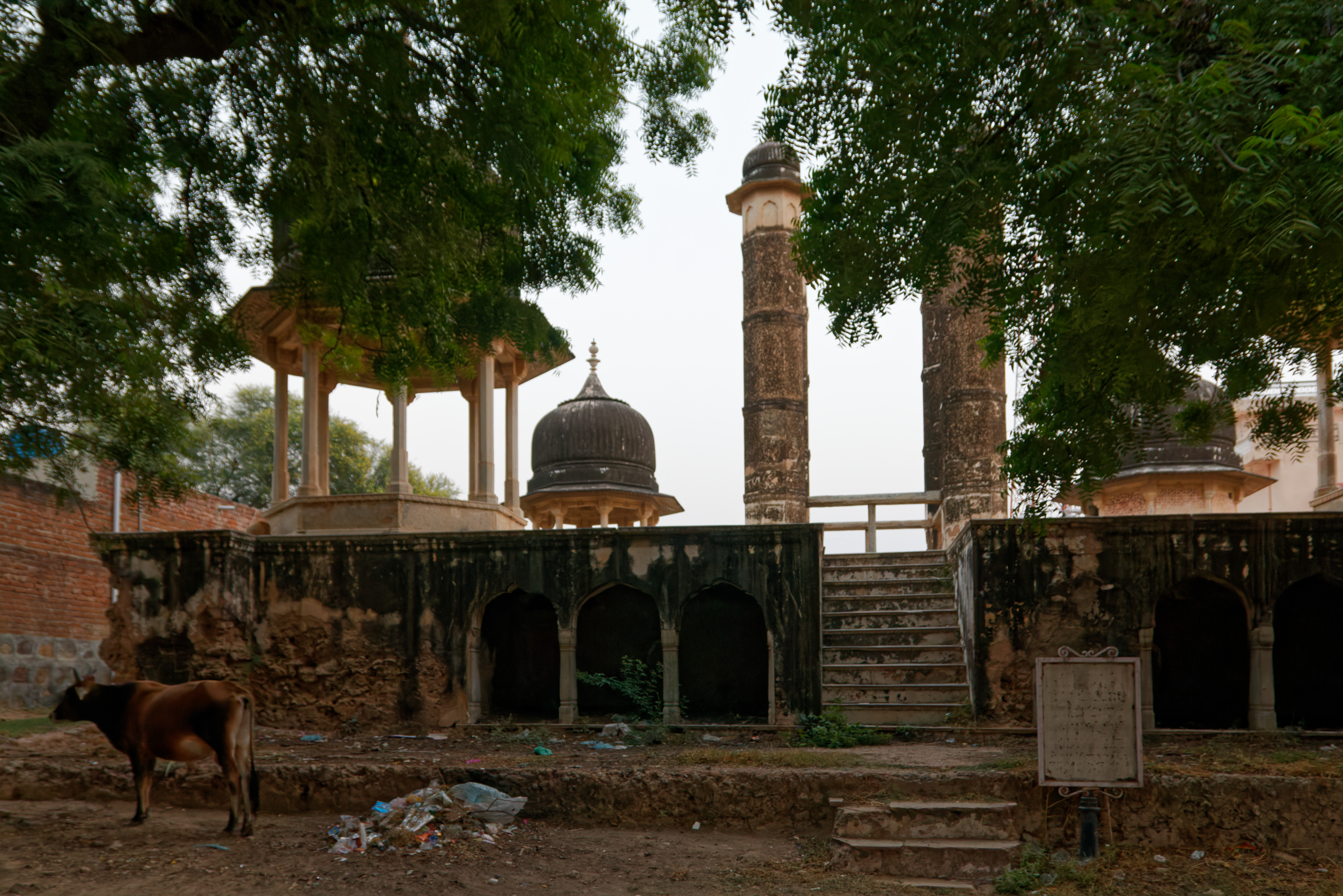 The water supply works are led to the abandonment of the large tank